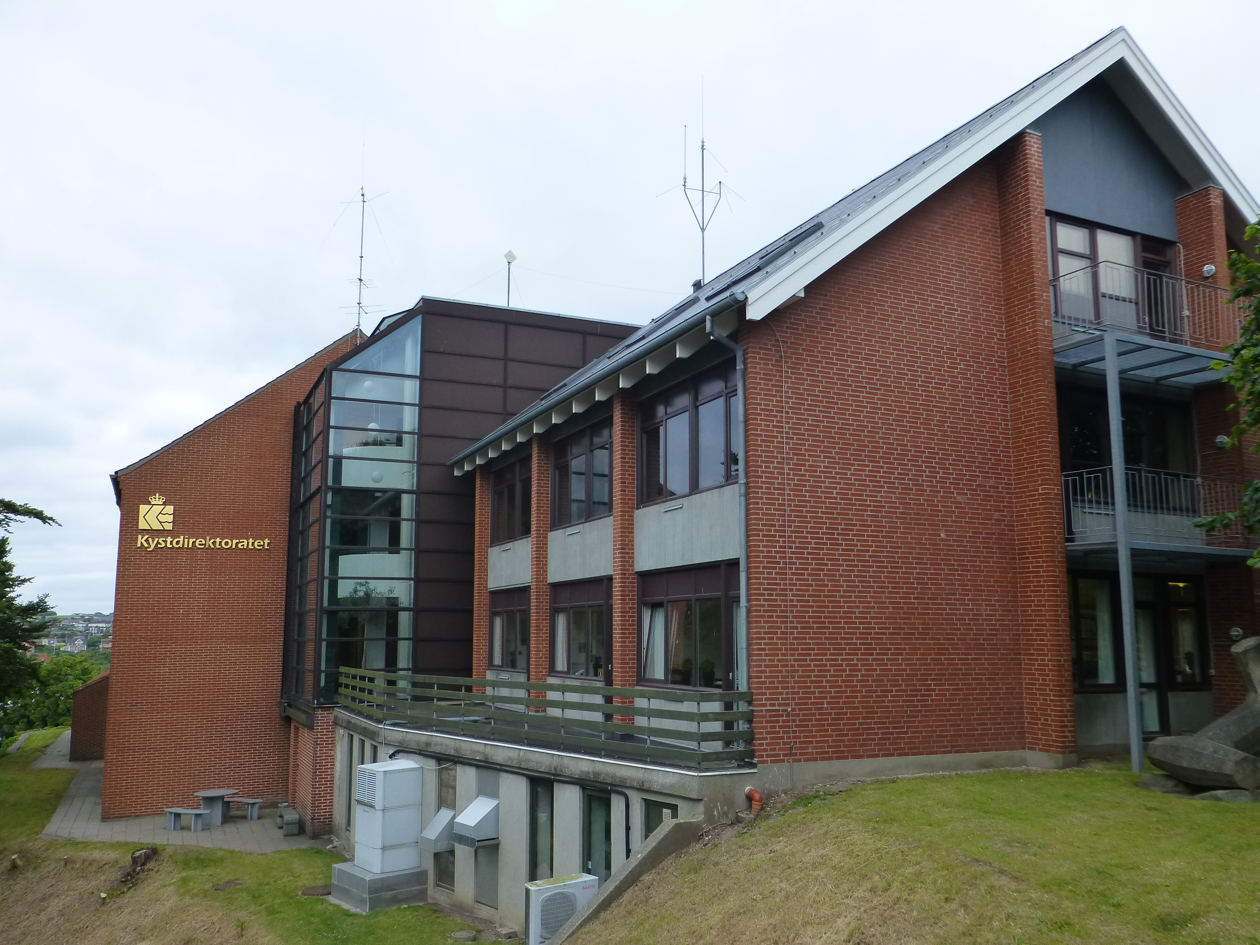 Kystdirektoratet, a part of the Danish government in Lemvig in Denmark.